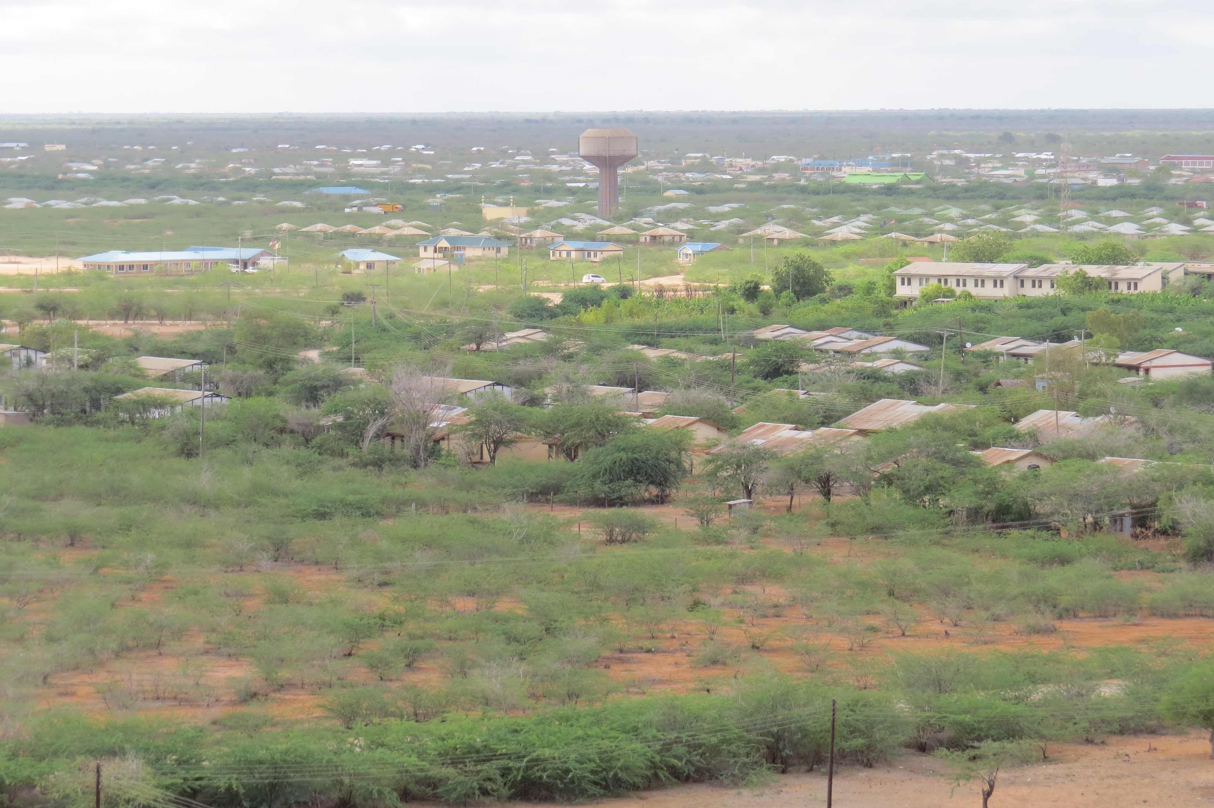 Skyline of Bura town, Tana River Kenya. The picture is taken from the main water tower. In the middle right the offices of the Bura Irrigation and Settlement Project can be seen. The water tower in the centre of the picture distributes water in Bura Rural Centre.